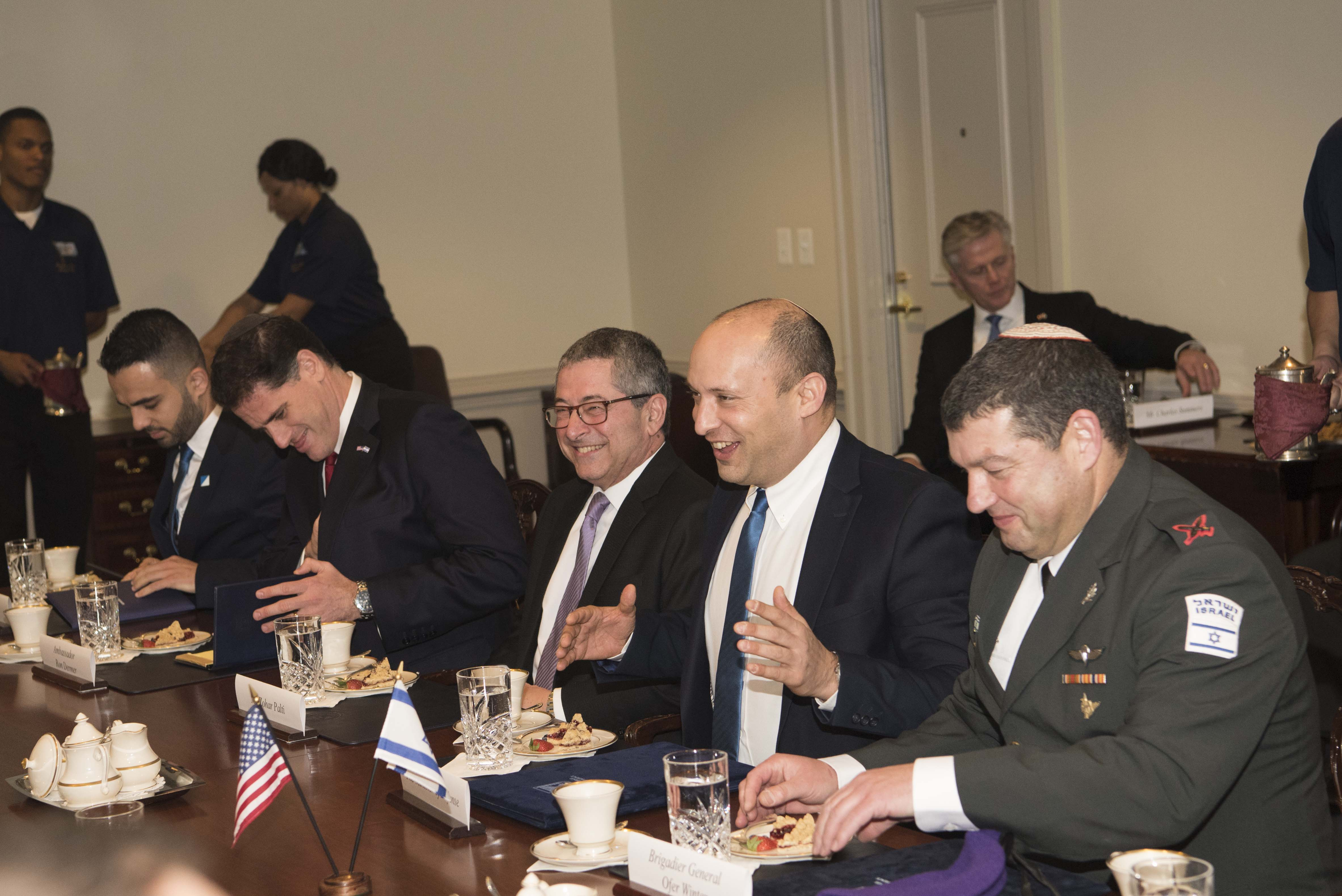 Defense Secretary Mark T. Esper holds a bilateral meeting with Israeli Defense Minister Naftali Bennett, at the Pentagon, Washington, D.C., Feb. 4, 2020. (DoD photo by Navy Petty Officer 2nd Class James K. Lee)